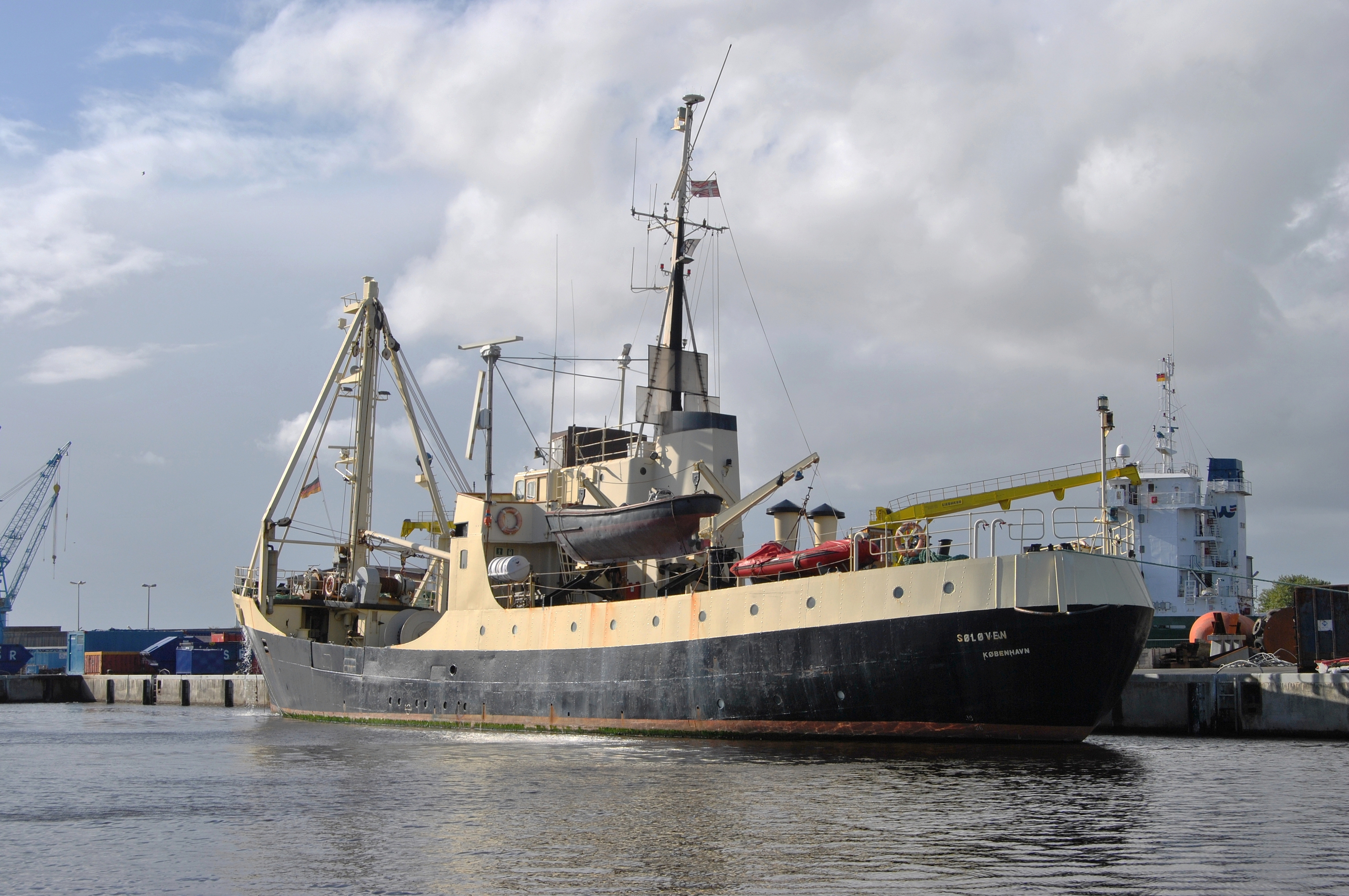 The Danish R/V ship Søløven (call sign: OXQL2; IMO: 8862569) in the harbour of Emden (East Frisia, Germany)